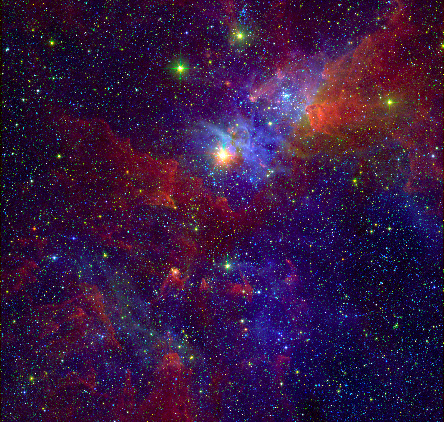 Eta Carinae is one of the most massive and brightest stars in the Milky Way. Compared to our own Sun, it is about 100 times as massive and a million times as bright. This famed variable hypergiant star (upper center) is surrounded by the Carina Nebula. In this composite image spanning the visible and infrared parts of the spectrum, areas that appear blue are not obscured by dust, while areas that appear red are hidden behind dark clouds of dust in visible light. A study combining X-ray and Infrared observations has revealed a new population of massive stars lurking in regions of the nebula that are highly obscured by dust. Adding these new massive stars to the known massive stars suggests that the Carina Nebula will produce twice as many supernova explosions as previously supposed. Visible light in the blue part of the spectrum from the Digital Sky Survey is represented as blue, near infrared light with a wavelength of 2.2 microns from the Two Micron All Sky Survey (2MASS) is green, and infrared observations from the Infrared Array Camera on NASA's Spitzer Space telescope at 3.6 microns is red.